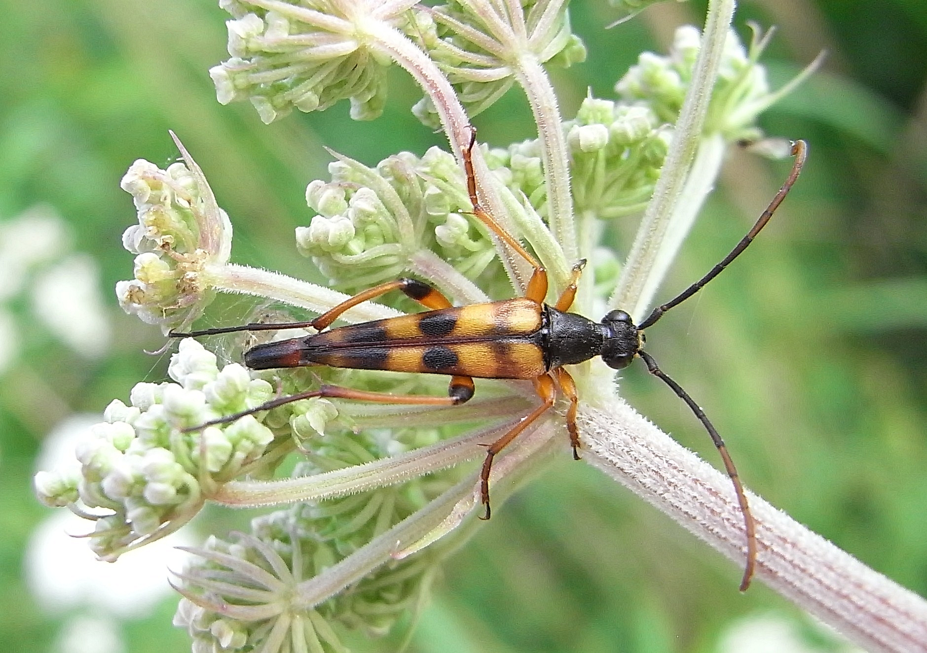 Strangalia attenuata from West-Hungary near Szentgotthard, at 2010-07-20 Ricoh R8